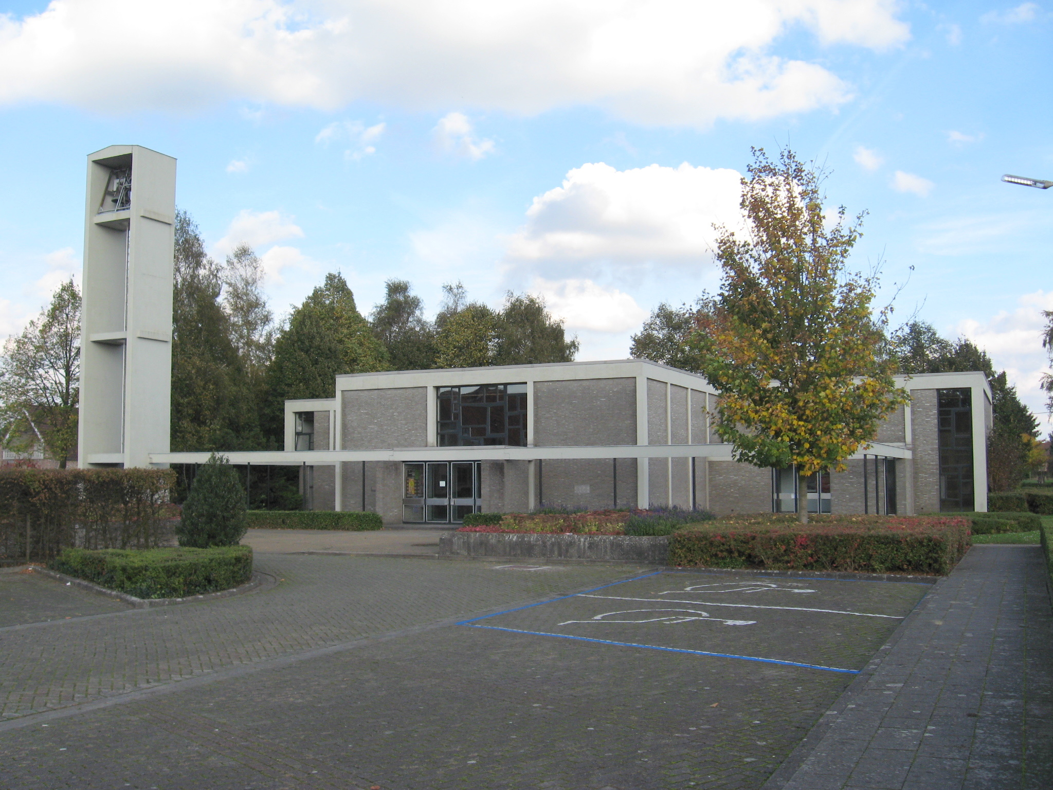 Church of the Visitation of the Blessed Virgin Mary in Oosterwijk, Tongerlo, Westerlo, Antwerp, Belgium